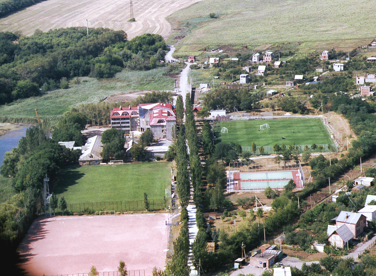 Kirsha Training Centre in Donetsk, Ukraine, during renovation in 1998